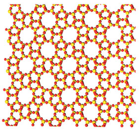 Projection of MFI crystal structure along b-direction formed by linking pentasil chains